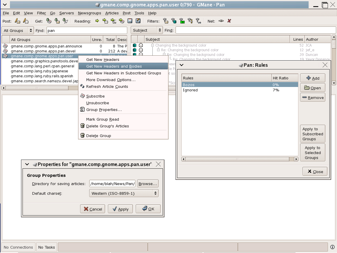 Screenshot of the pan newsreader showing the newsgroups from the gmane newsserver, with the group pop-up menu, rules editor and newsgroup properties.